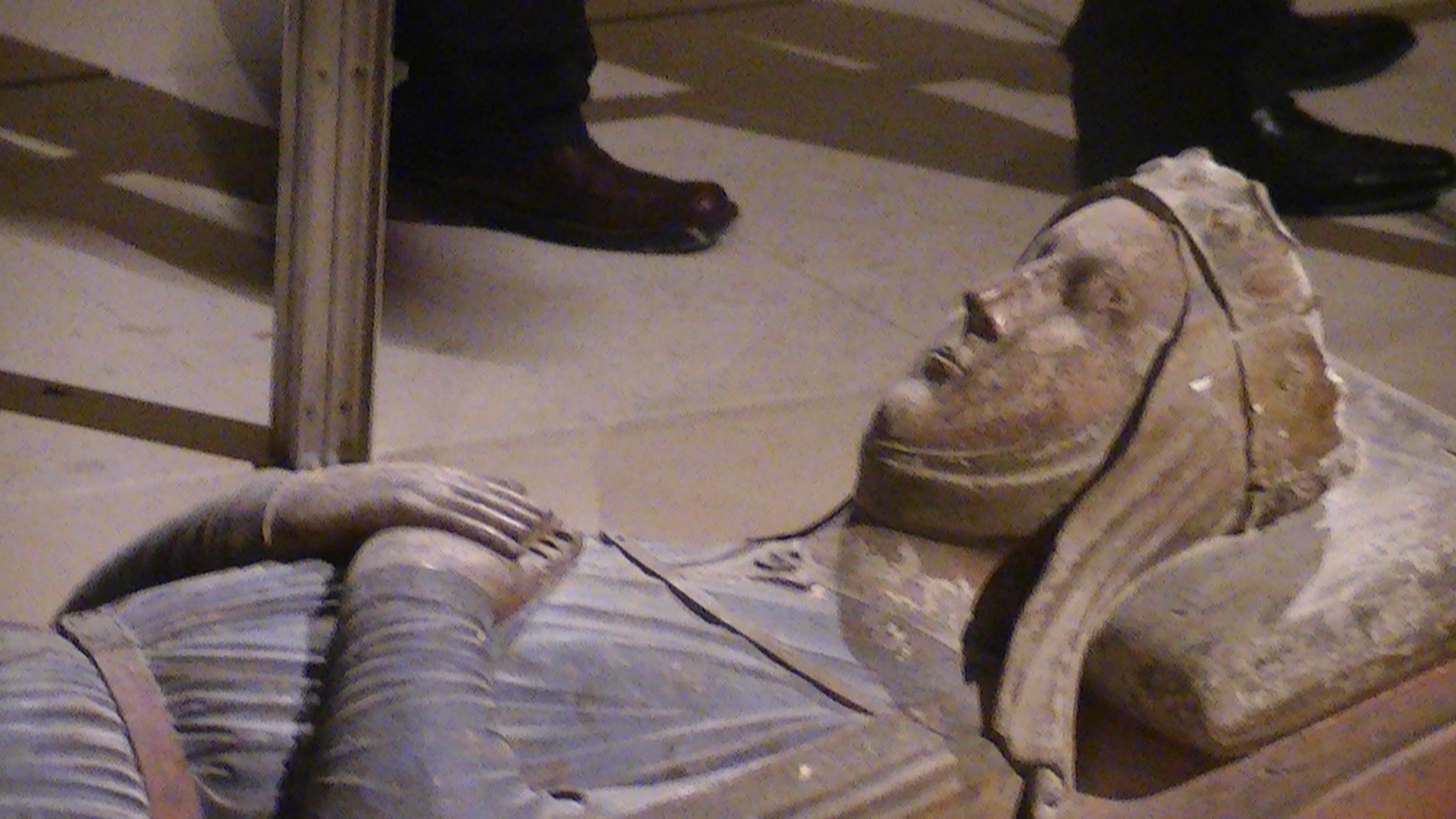 Effigy of Isabella of Angouleme in the church of Fontevraud Abbey